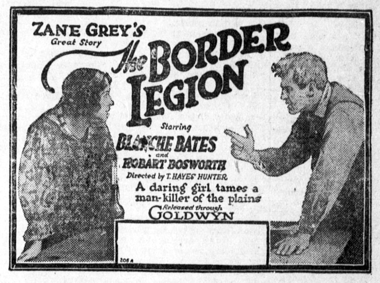 Ad for The Border Legion (several films were made based upon the Zane Grey book, this is the 1918 version starring Blanche Bates and Hobart Bosworth).